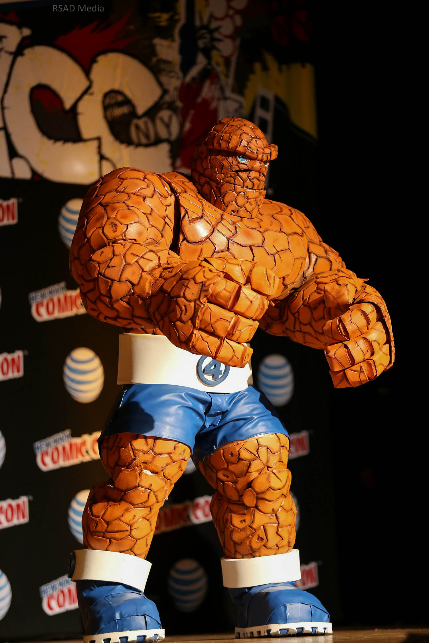 New York Comic Con 2015 - The Thing Cosplay at the 2015 New York Comic Con (NYCC 2015).